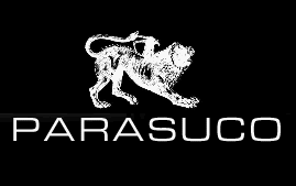 Parasuco Jeans Logo